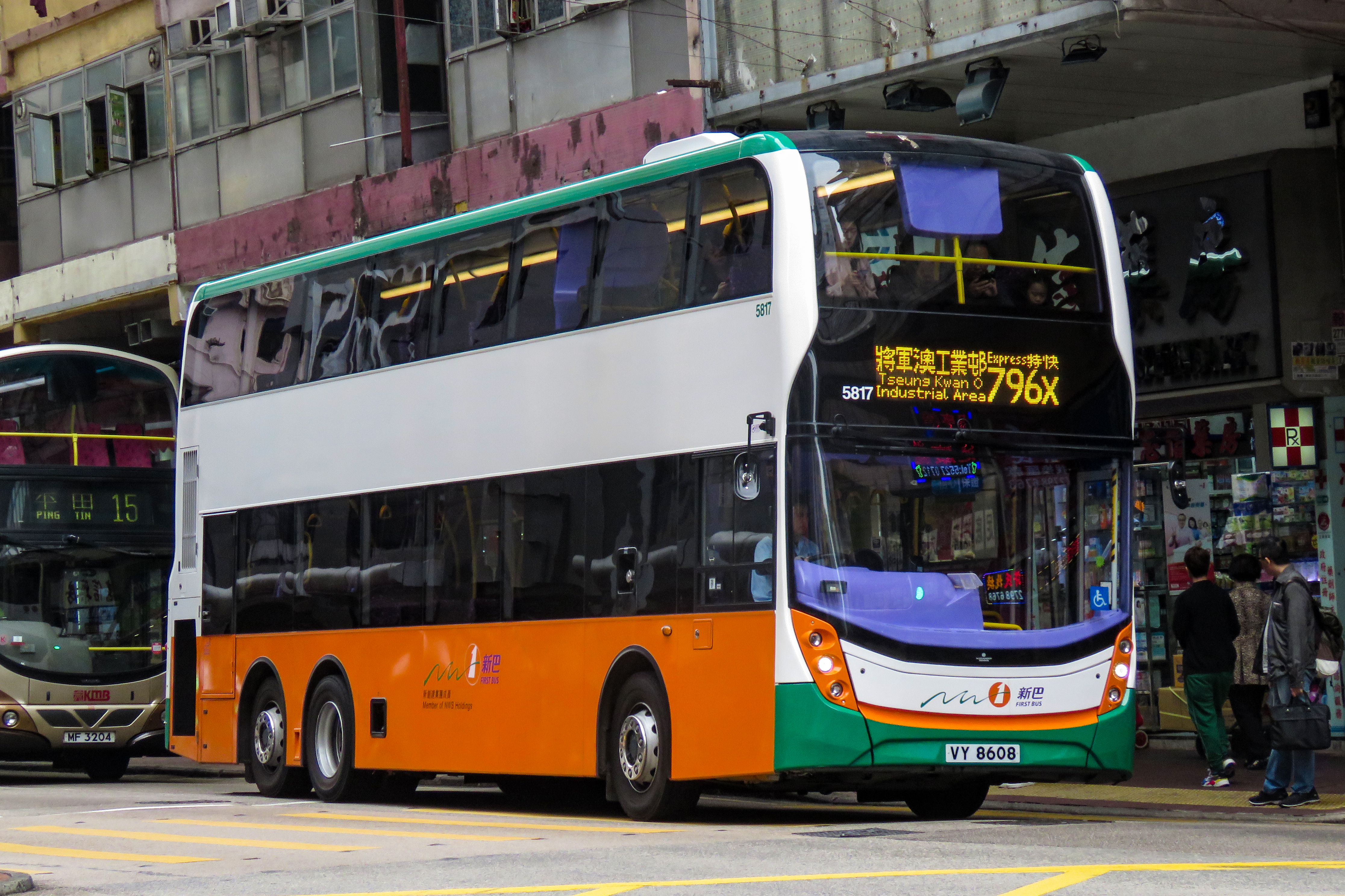 What? Are you the newest member in NWFB fleet?